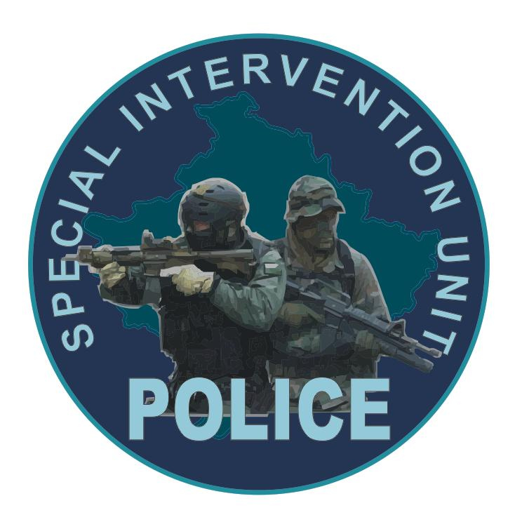 Special Intervention Unit-Kosovo